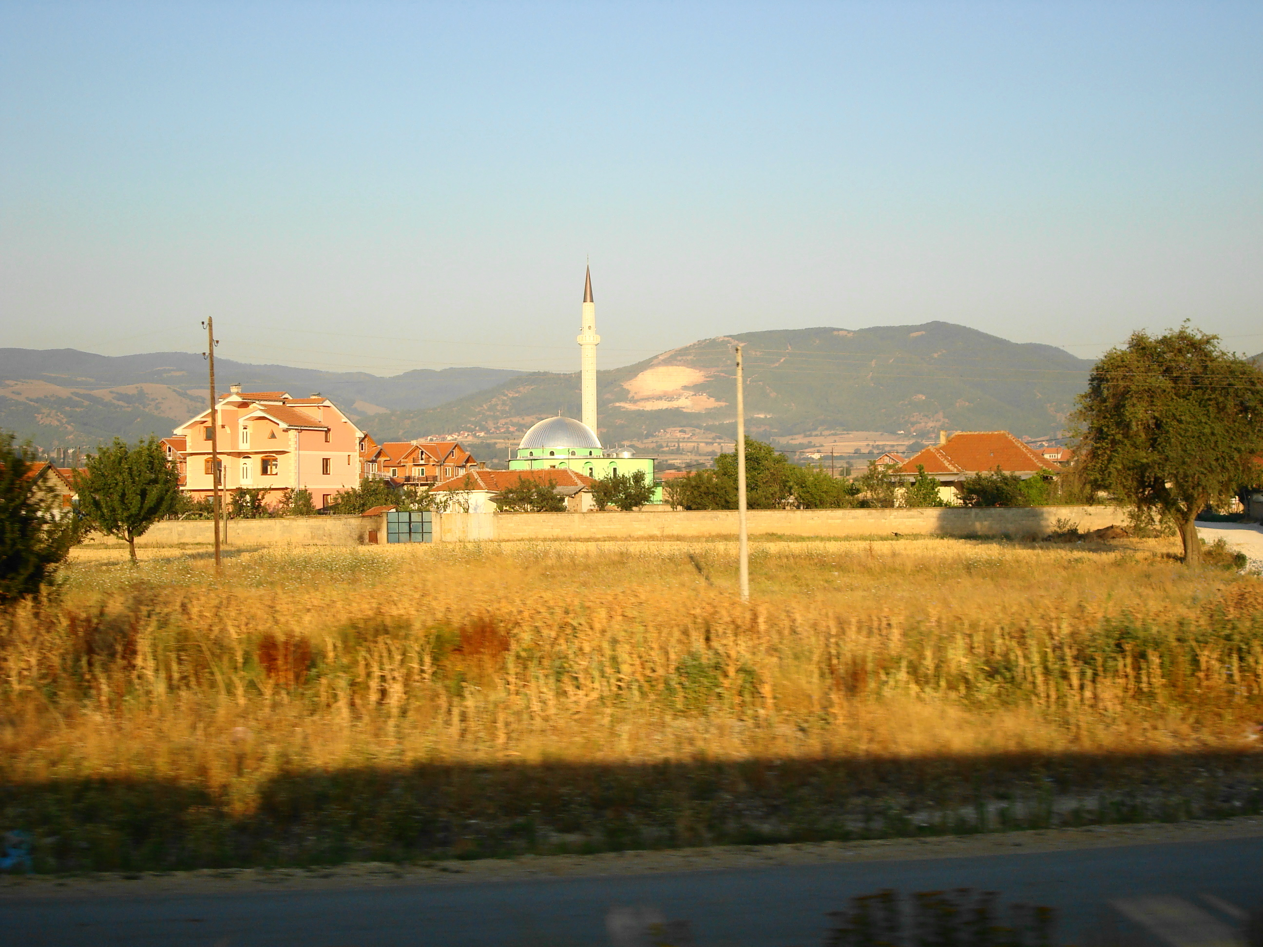 Mosque Zeid ibn Thabit in Preševo, Serbia.